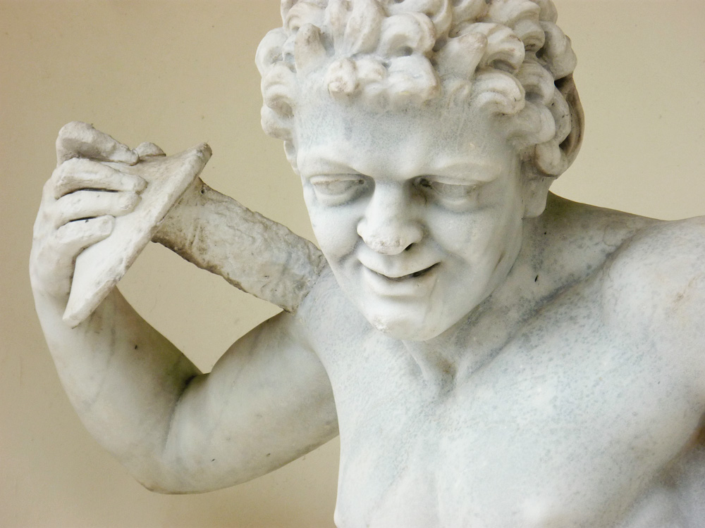 Sculpture in Russborough House